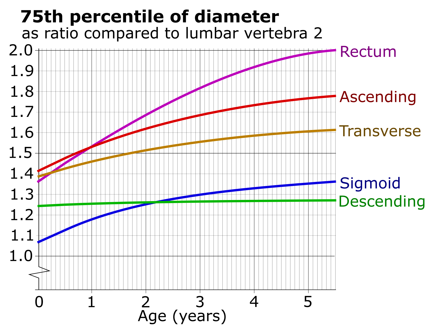 Ratios of the diameters of different segments of the large intestine as compared to the width of lumbar vertebra 2 in children aged up to 5 years. Reference: (2016). "Assessing colonic anatomy normal values based on air contrast enemas in children younger than 6 years". Pediatric Radiology 47 (3): 306–312. ISSN 0301-0449.